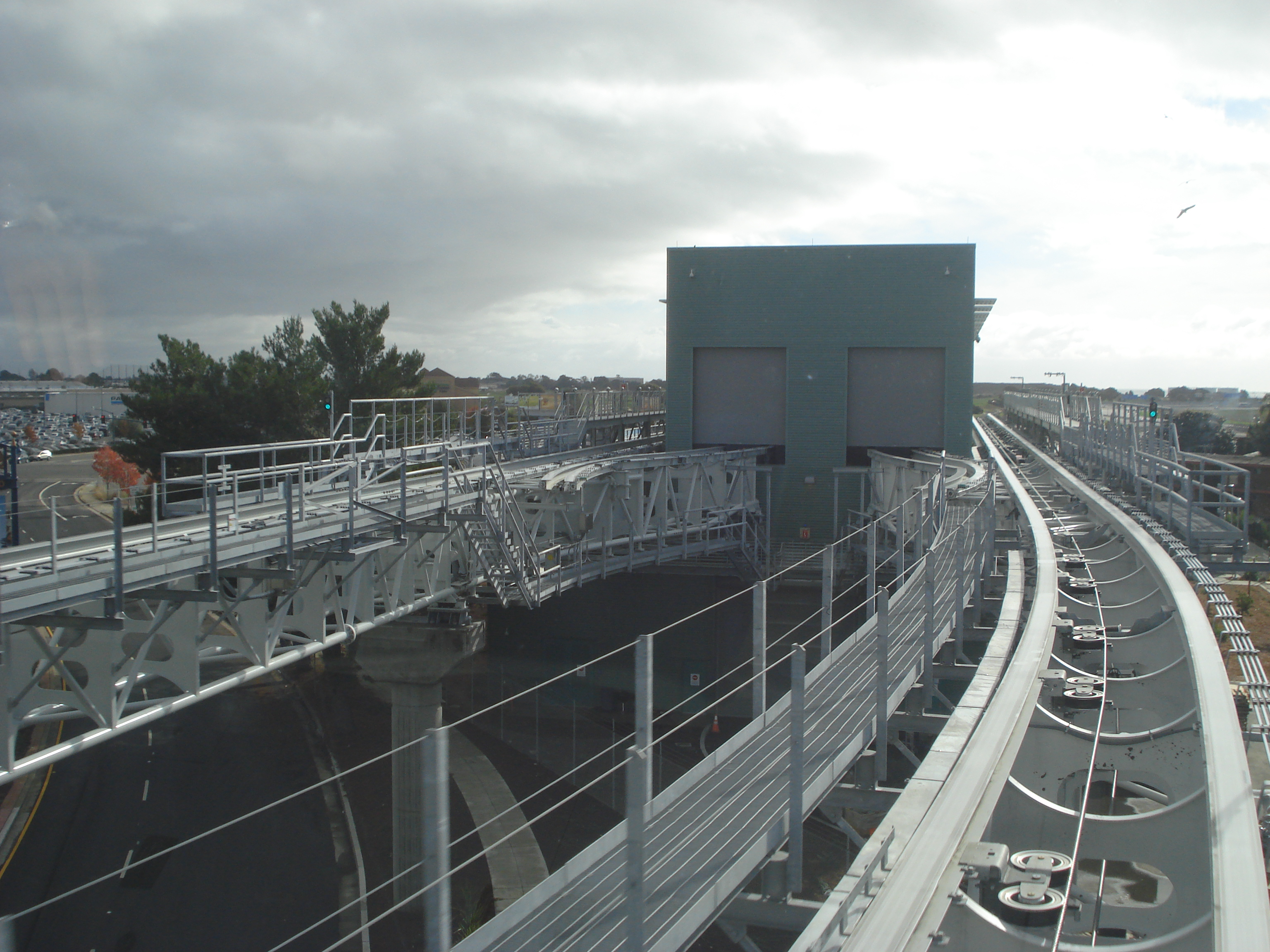 The maintenance facility (and potential future station site) for the Oakland Airport Connector on the first day of service